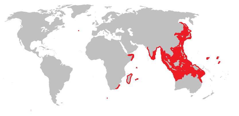 Range Map for Bluespotted Stingray.